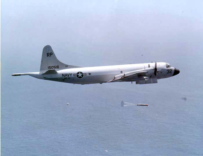 VP-31 (RP 32) P-3A (BuNo 150518) dropping a torpedo, date unknown. Repository: San Diego Air and Space Museum Archive